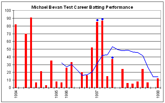 Test batting chart of Michael Bevan. Red columns are the runs in the innings. Blue dots indicate not outs. Blue line is average in the last ten innings. Thanks to Raven4x4x for providing the template.